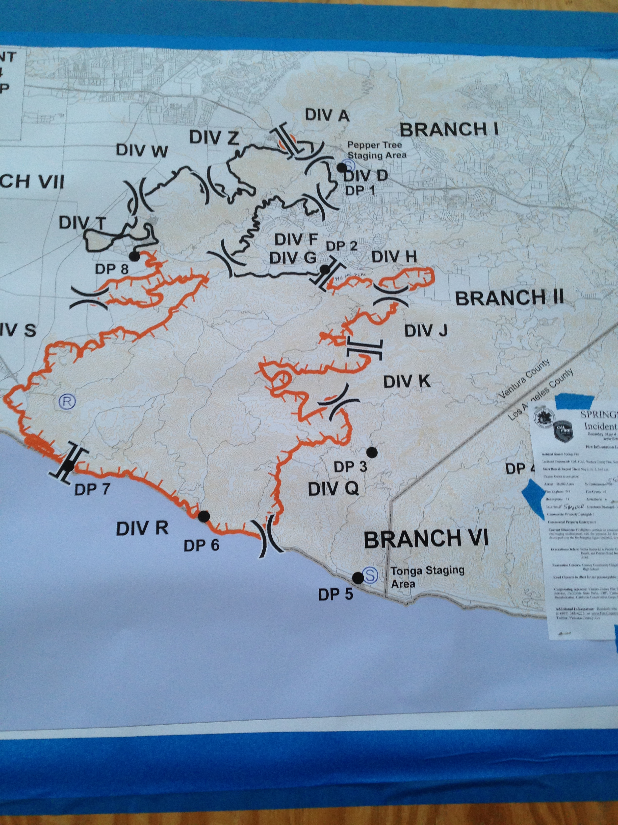 Map Issued by Fire Department